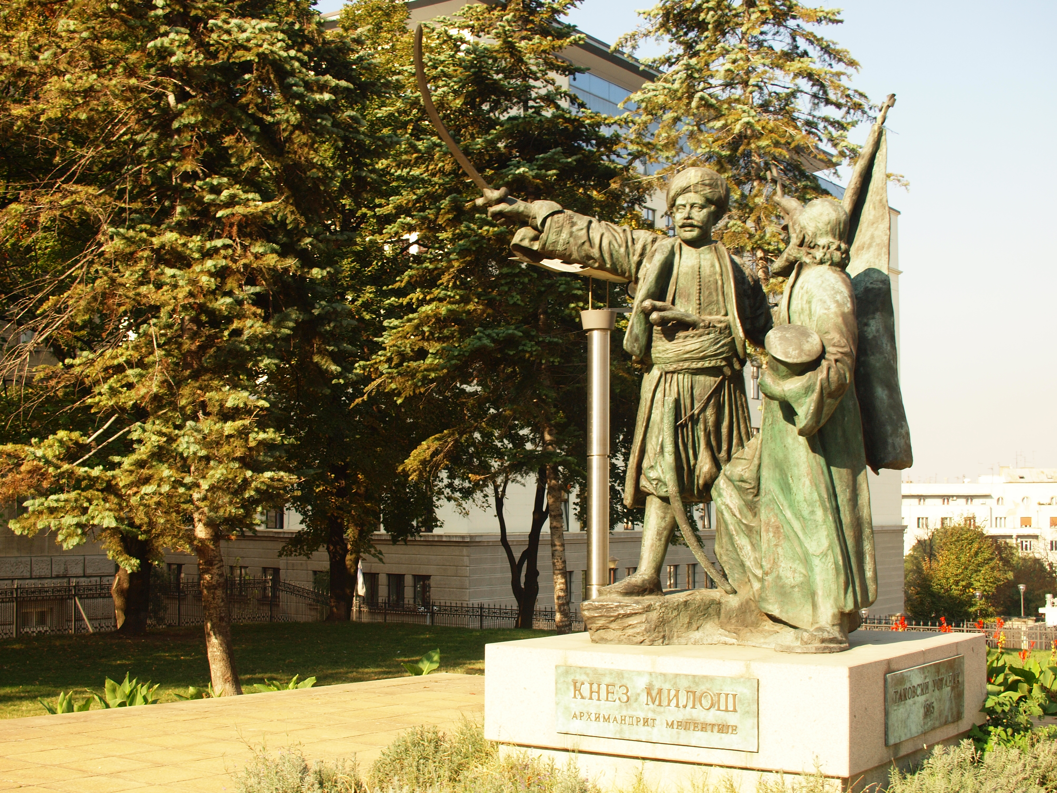 knjaz milos ustanak